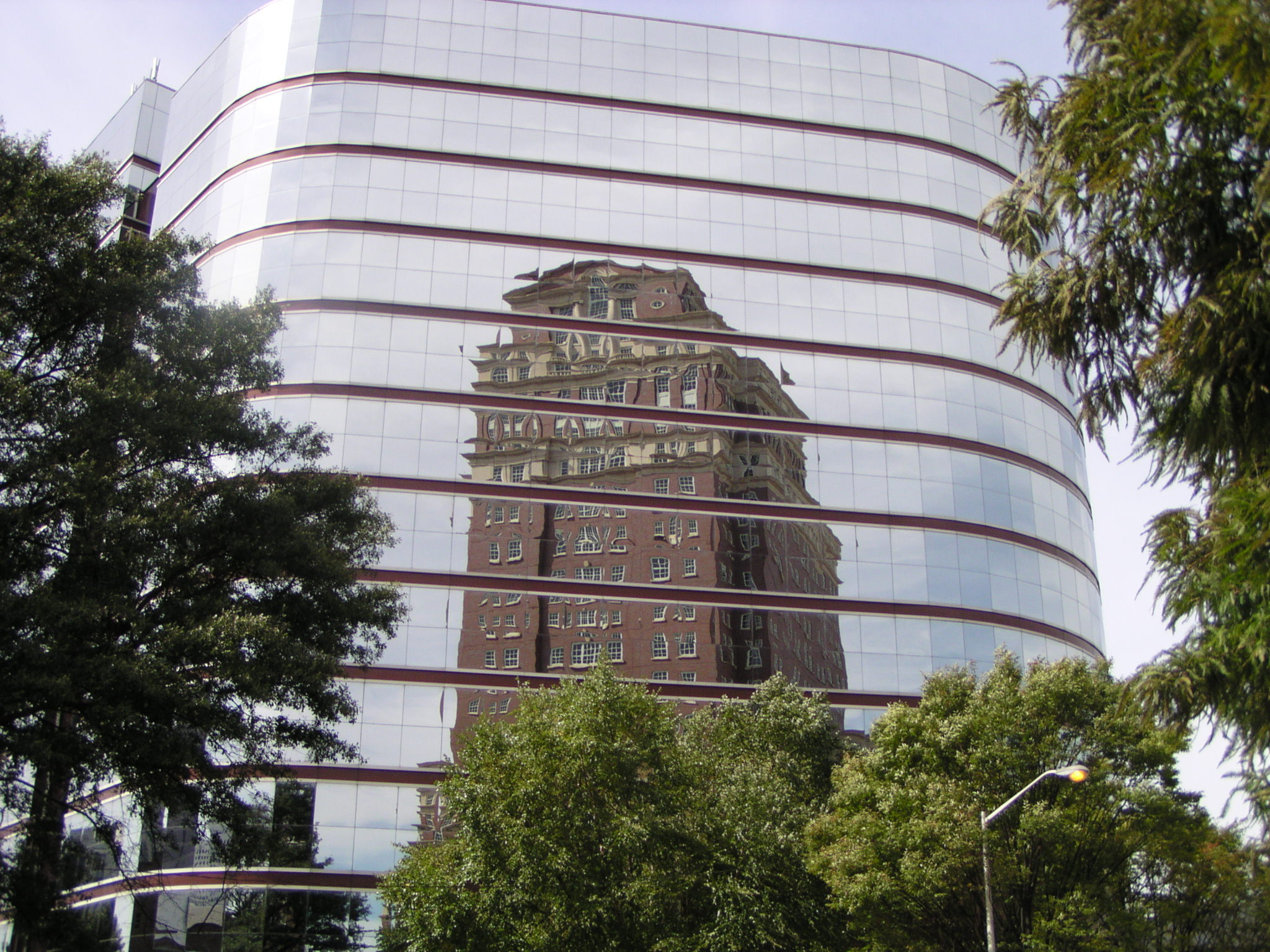 Relection on One Midtown Plaza